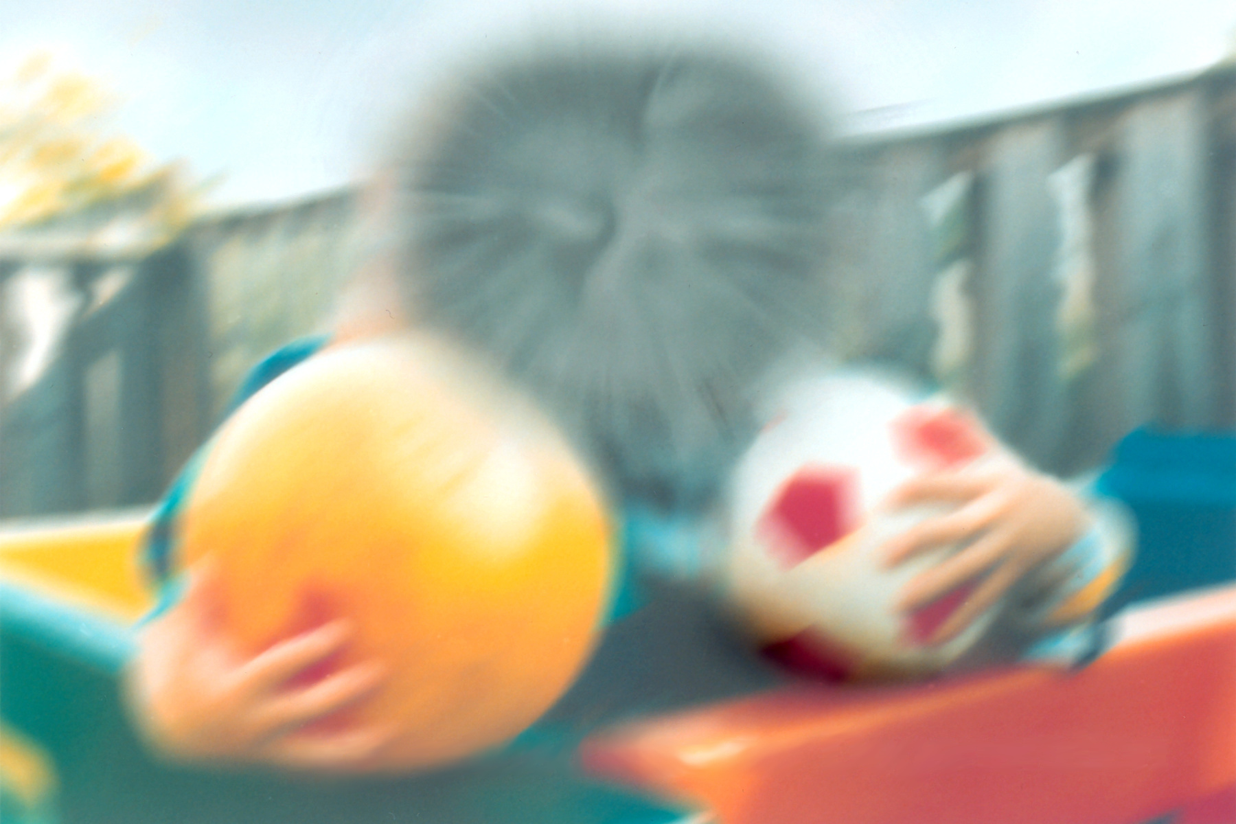 A scene as it might be viewed by a person with age-related macular degeneration.